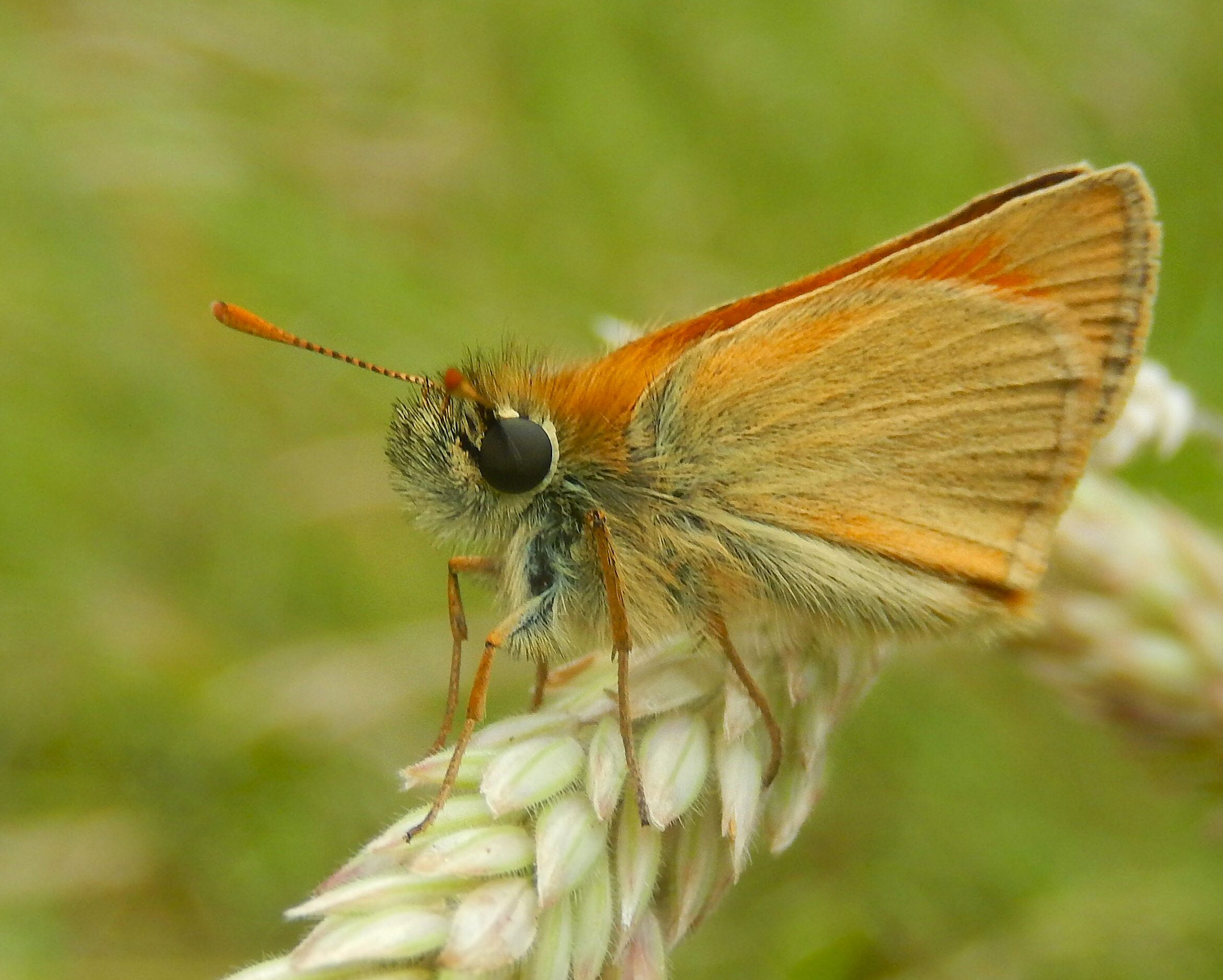 Small skipper on yorkshire fog